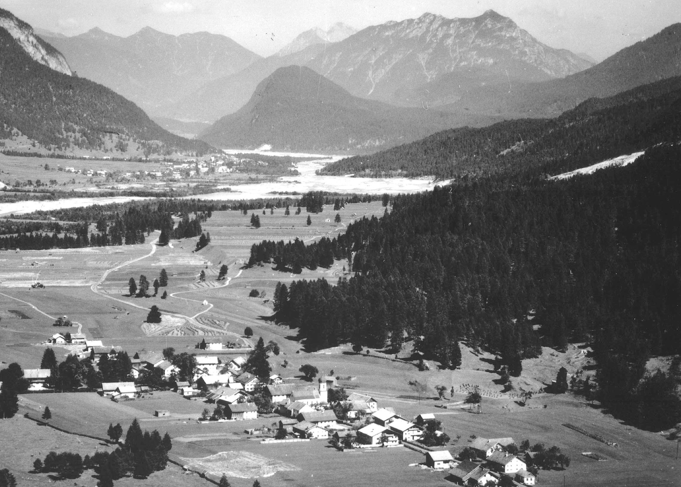 Forchach in Tyrol with Lech river (1960)